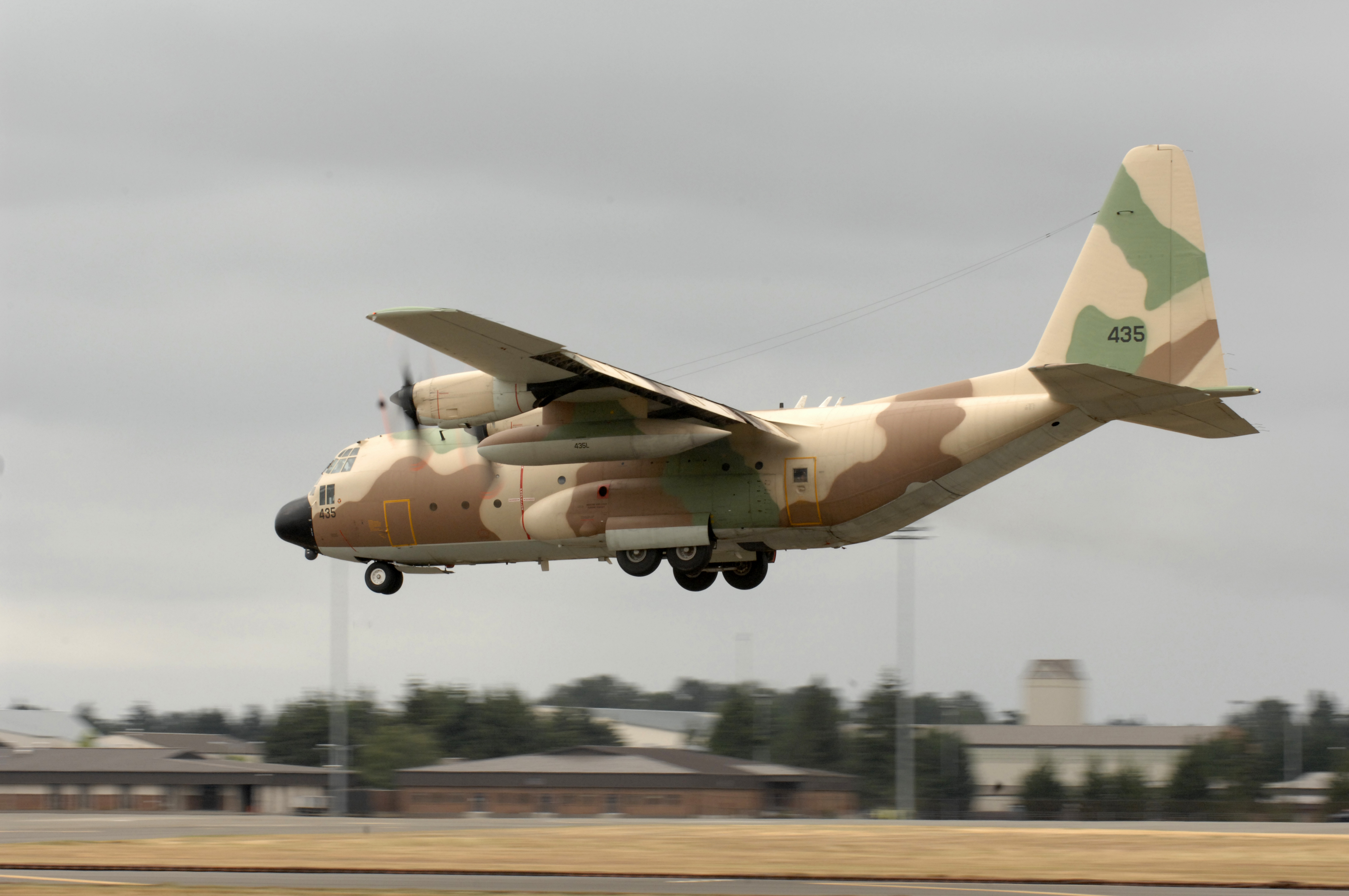 An Israeli Lockheed C-130E Hercules aircraft (s/n 435) lands at McChord Air Force Base, Washington (USA), on 13 July 2009 to compete in the U.S. Air Force Air Mobility Command's "Rodeo 2009" exercise.